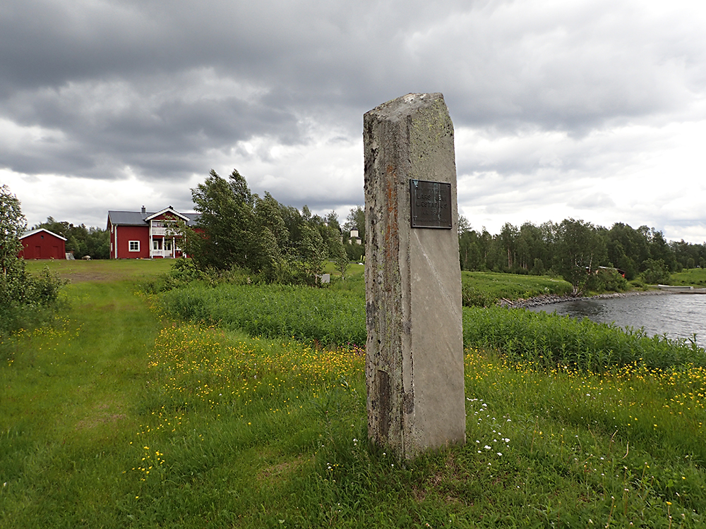 Memorial stone on the place of the cottage in Jäkkvik, Arjeplog Municipality, Sweden, where Lars Levi Læstadius was born in 1800.